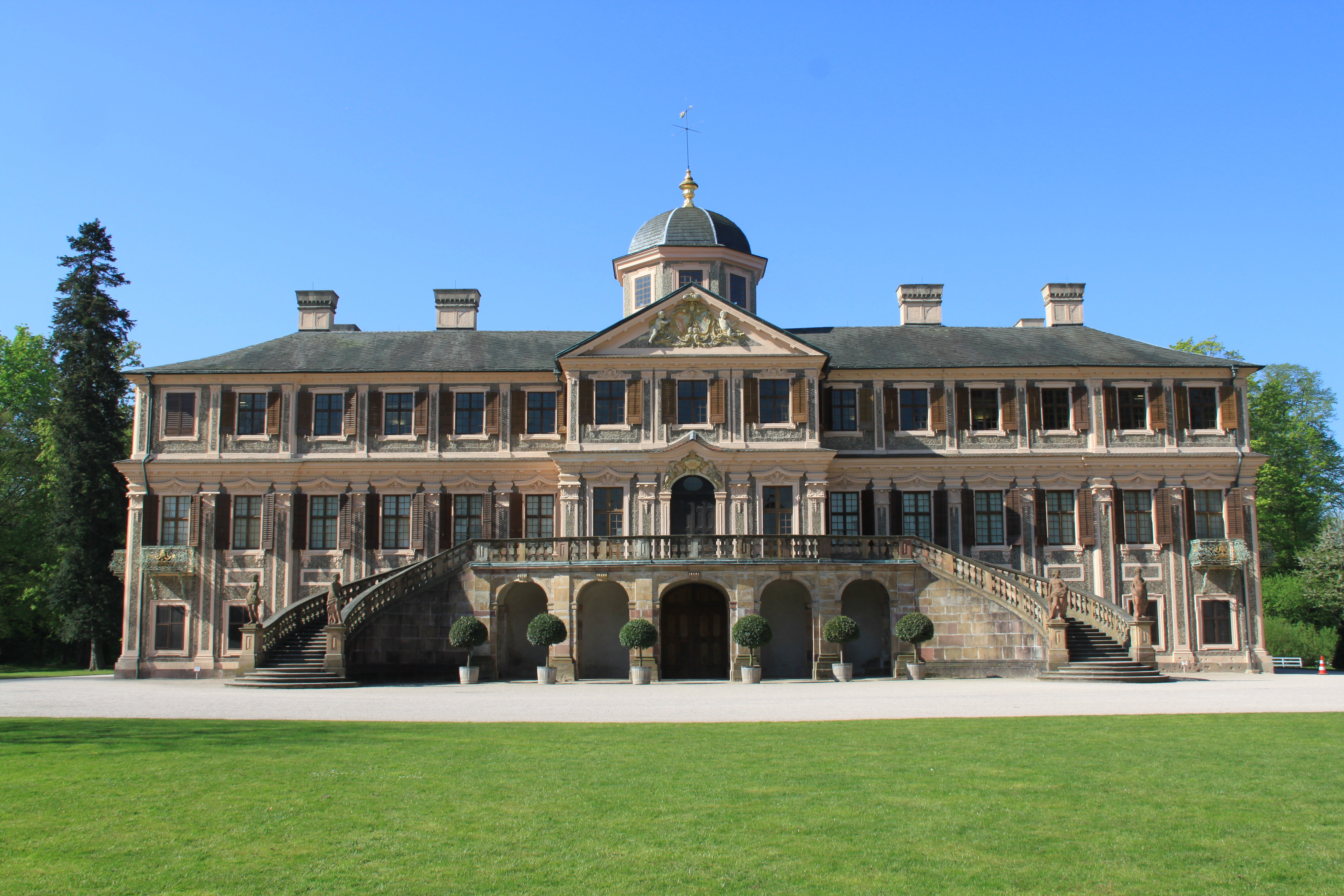 Rastatt, castle Favorite